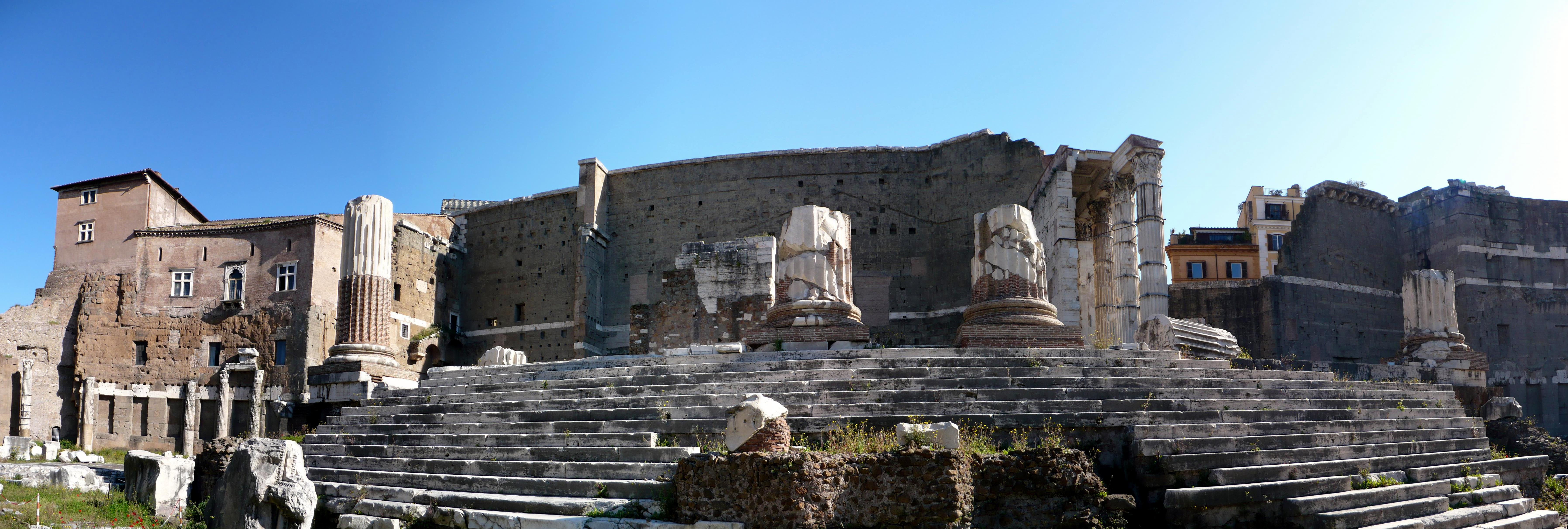 A panoramic view of the Temple of Mars Ultor (Mars the Avenger) in Rome, taken from the steps (that is, below the Via dei Fori Imperiali)